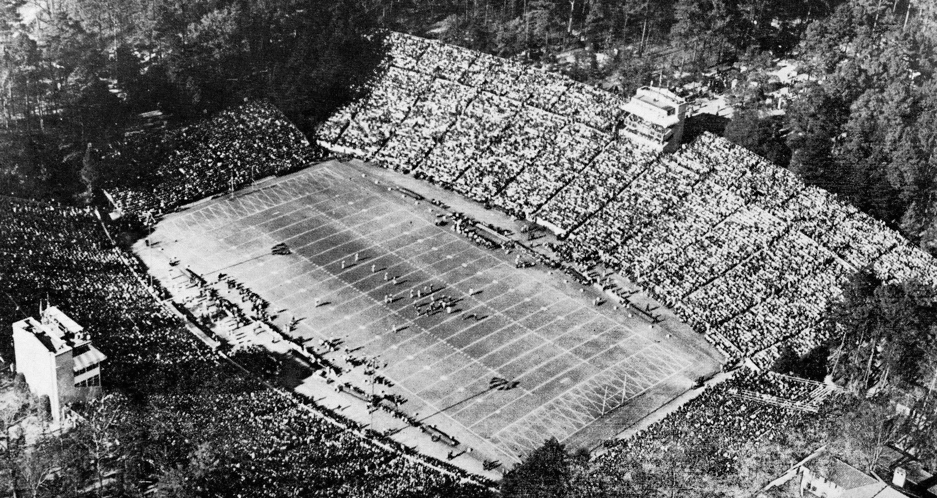 Kenan Memorial Stadium in Chapel Hill, North Carolina